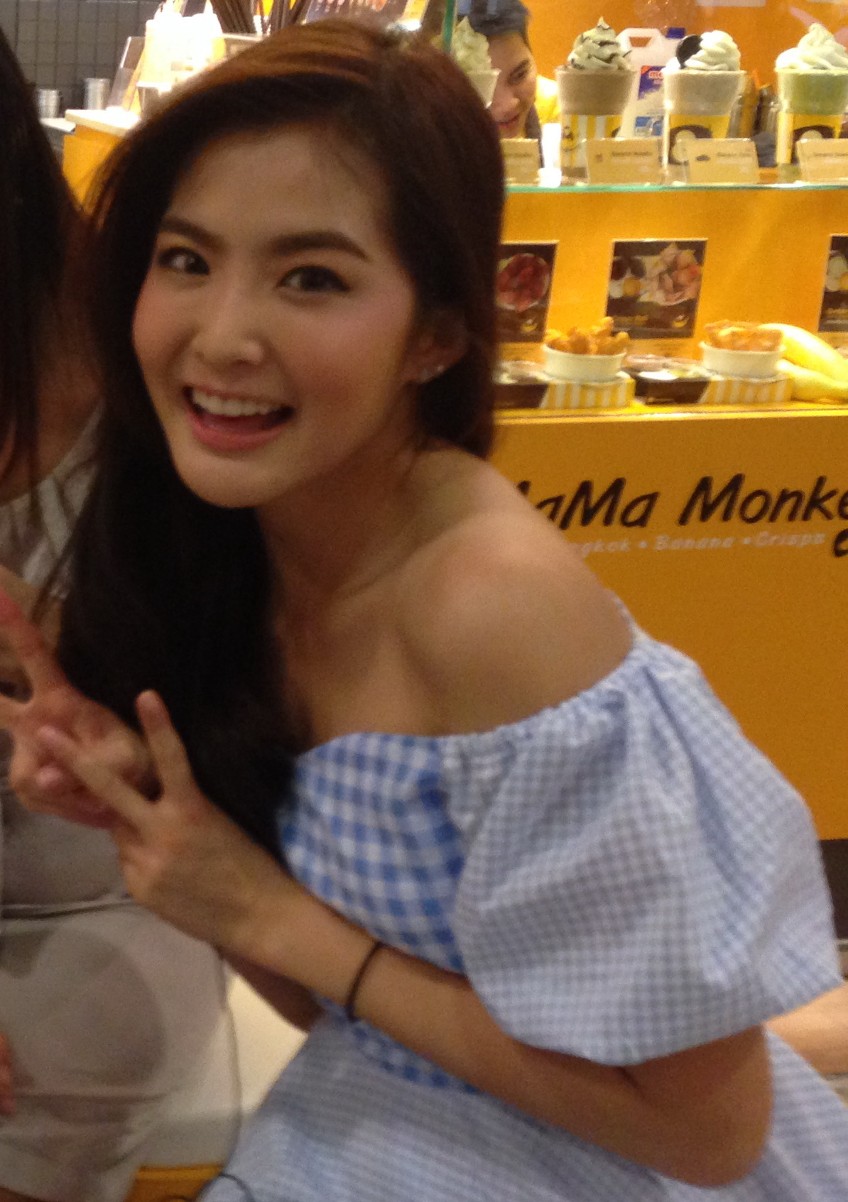 Mild Wirapon at Mama Monkey, Terminal 21.